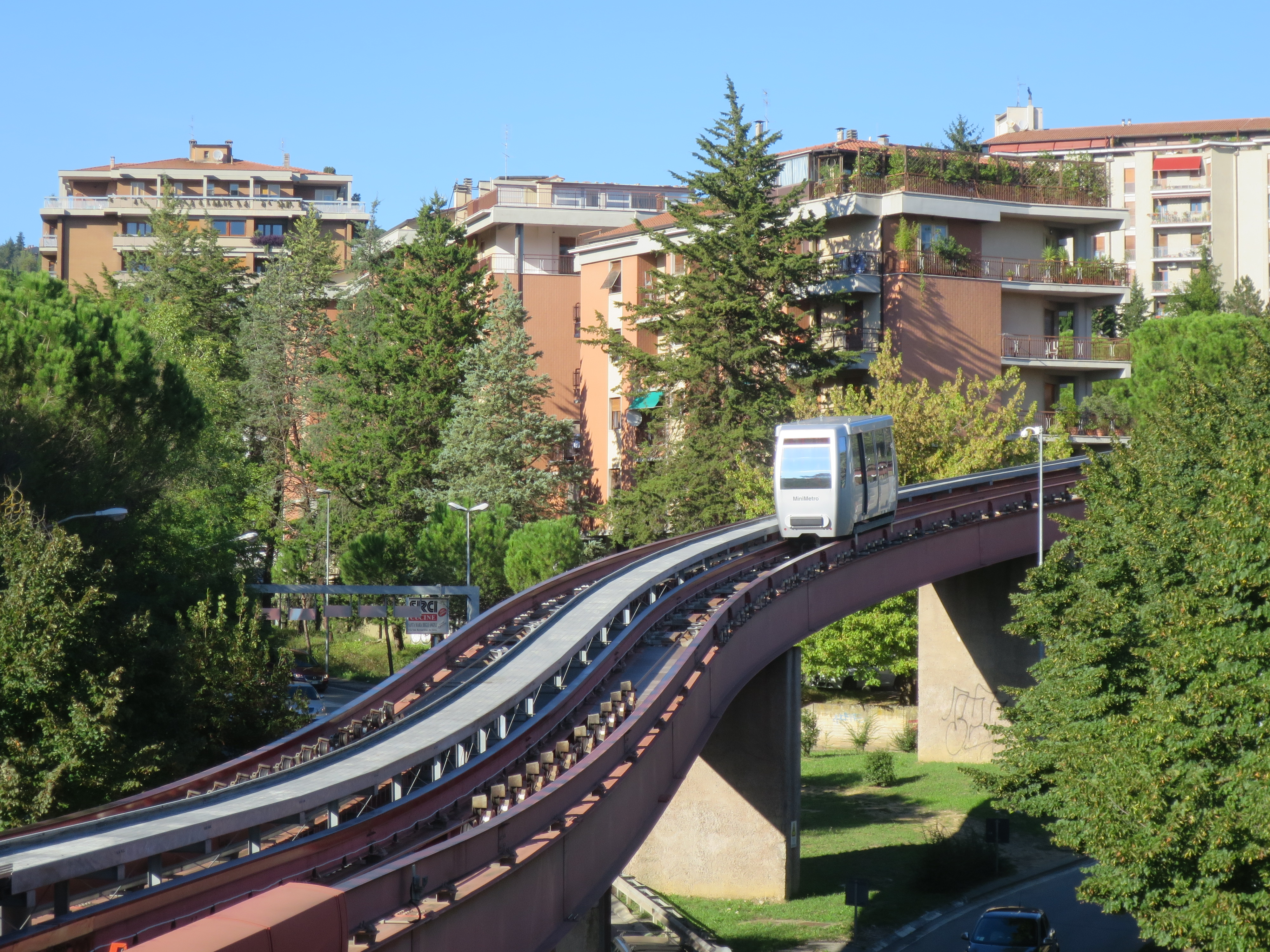 Minimetrò Perugia, Line between stations Fontivegge and Case Bruciate